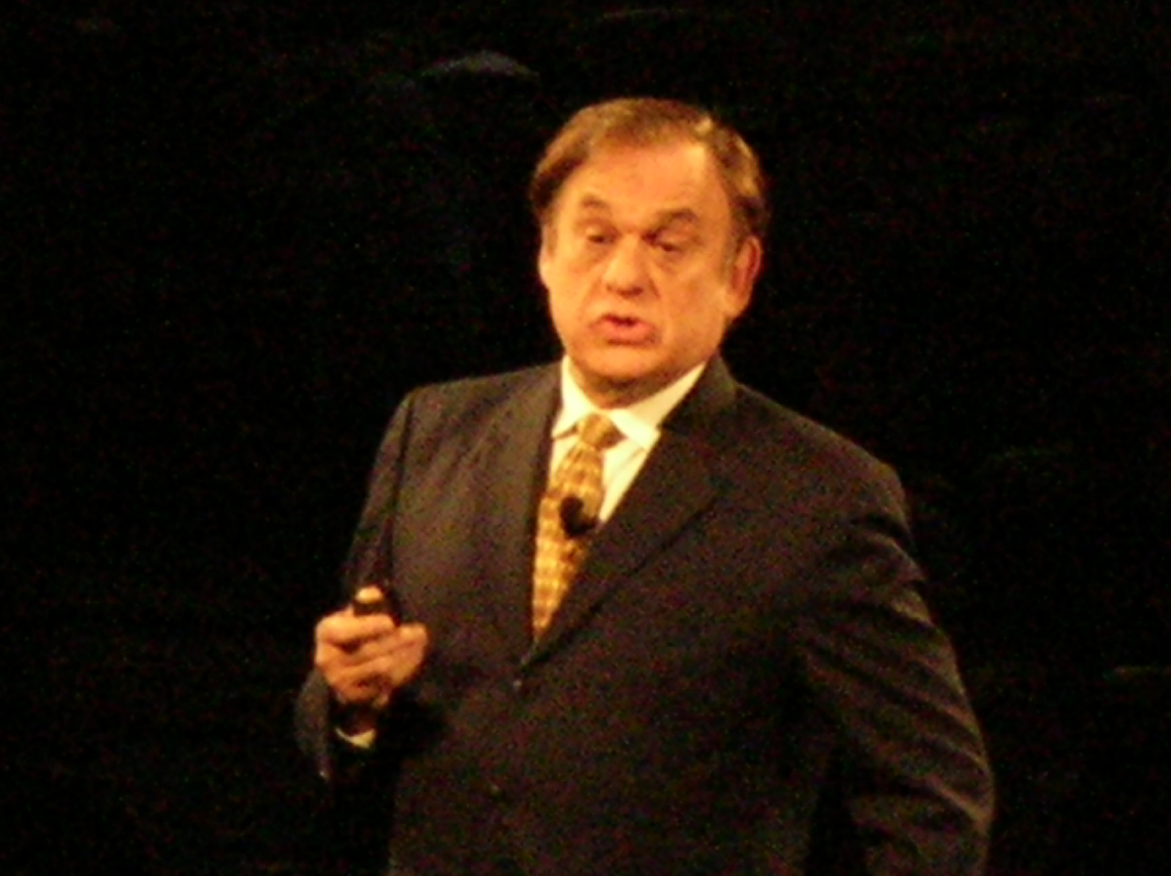 Earl Mindell speaks at the Get Motivated Seminar at the Cow Palace in Daly City, California.